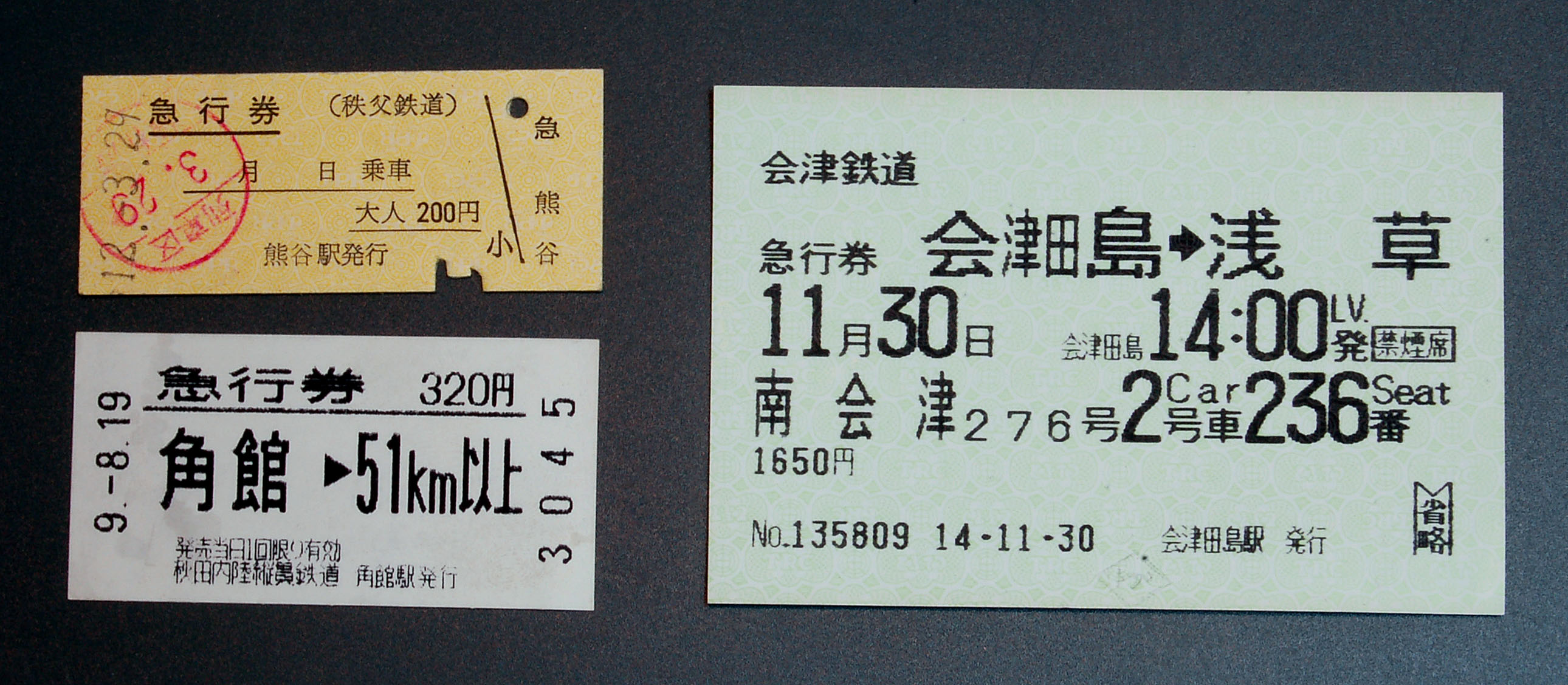 Japanese private railway companie's express tickets. Left: Express ticket of Chichibu Railway(up) and Akitanairiku-Jyukan Railway(down). Right: Tobu Railway - Aizu railway through express ticket used before 2005. 有料急行を運行する私鉄の急行券。左上：秩父鉄道｢秩父路｣、左下：秋田内陸縦貫鉄道｢もりよし｣。右は2005年まで運転されていた東武鉄道～野岩鉄道～会津鉄道直通の｢南会津｣のもの。